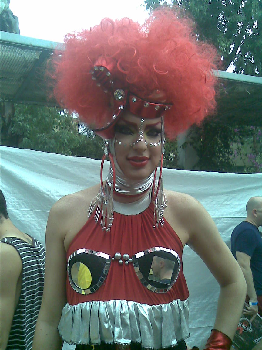 K long at Wigstock 2011, Gan Meir, Tel Aviv